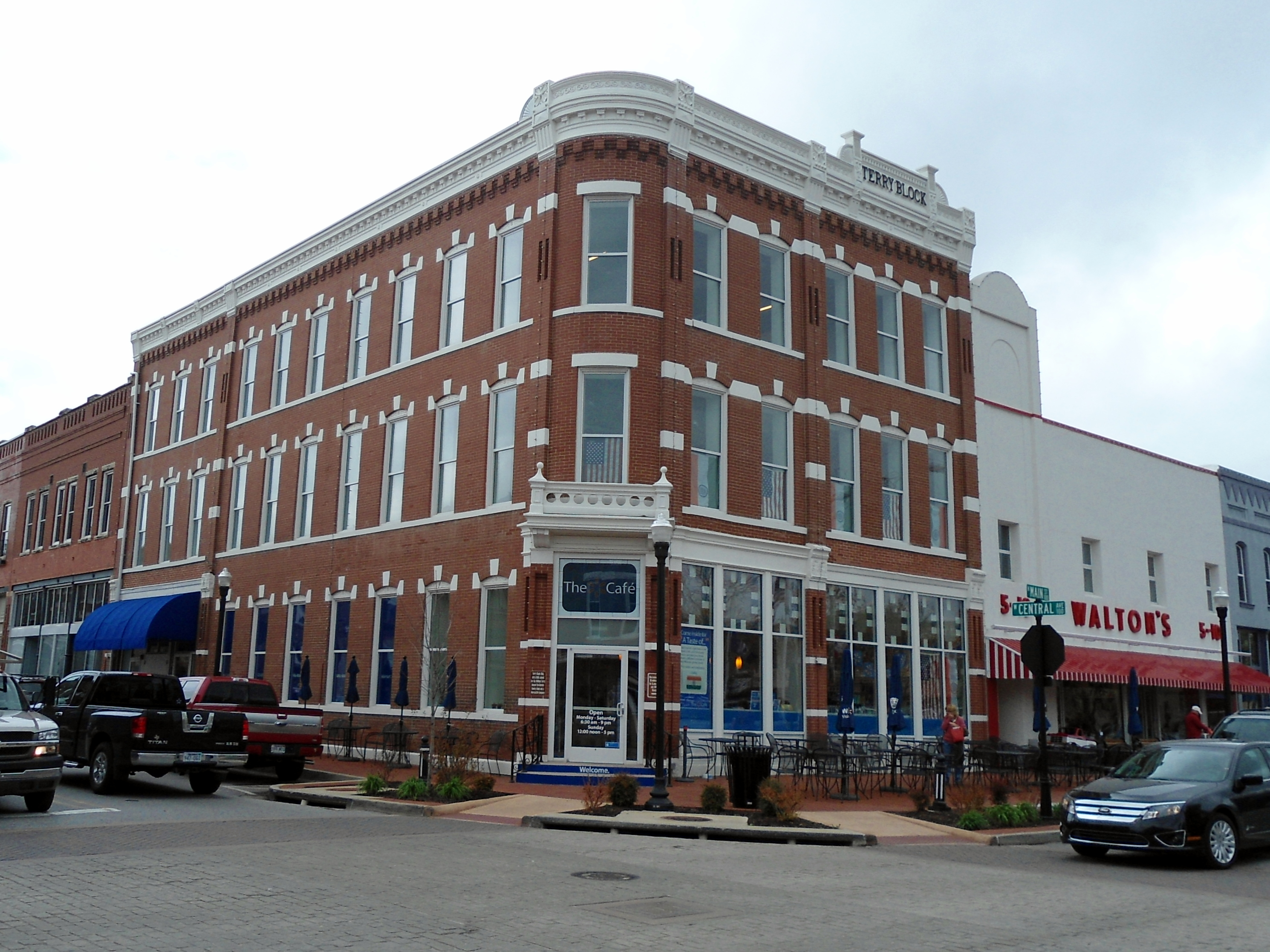 Terry Block Building in Bentonville, Arkansas NRHP: 82004613.